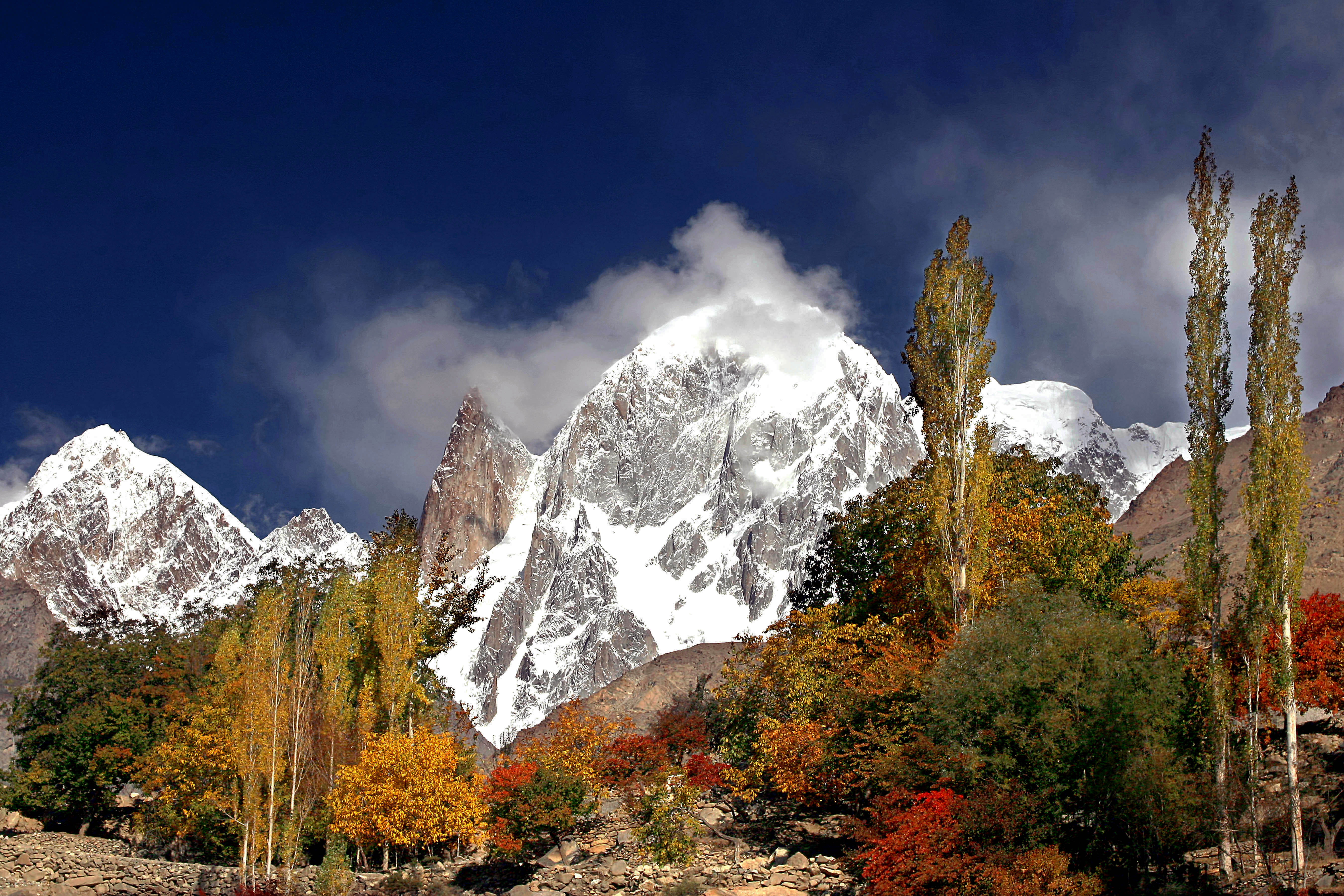 A panoramic view of Ladyfinger Peak (aka Bublimotin) and Hunza Peak. Both subsidiary peaks of Ultar Sar (on the right outside the picture), Batura Muztagh, Karakoram Range, (Hunza Valley).